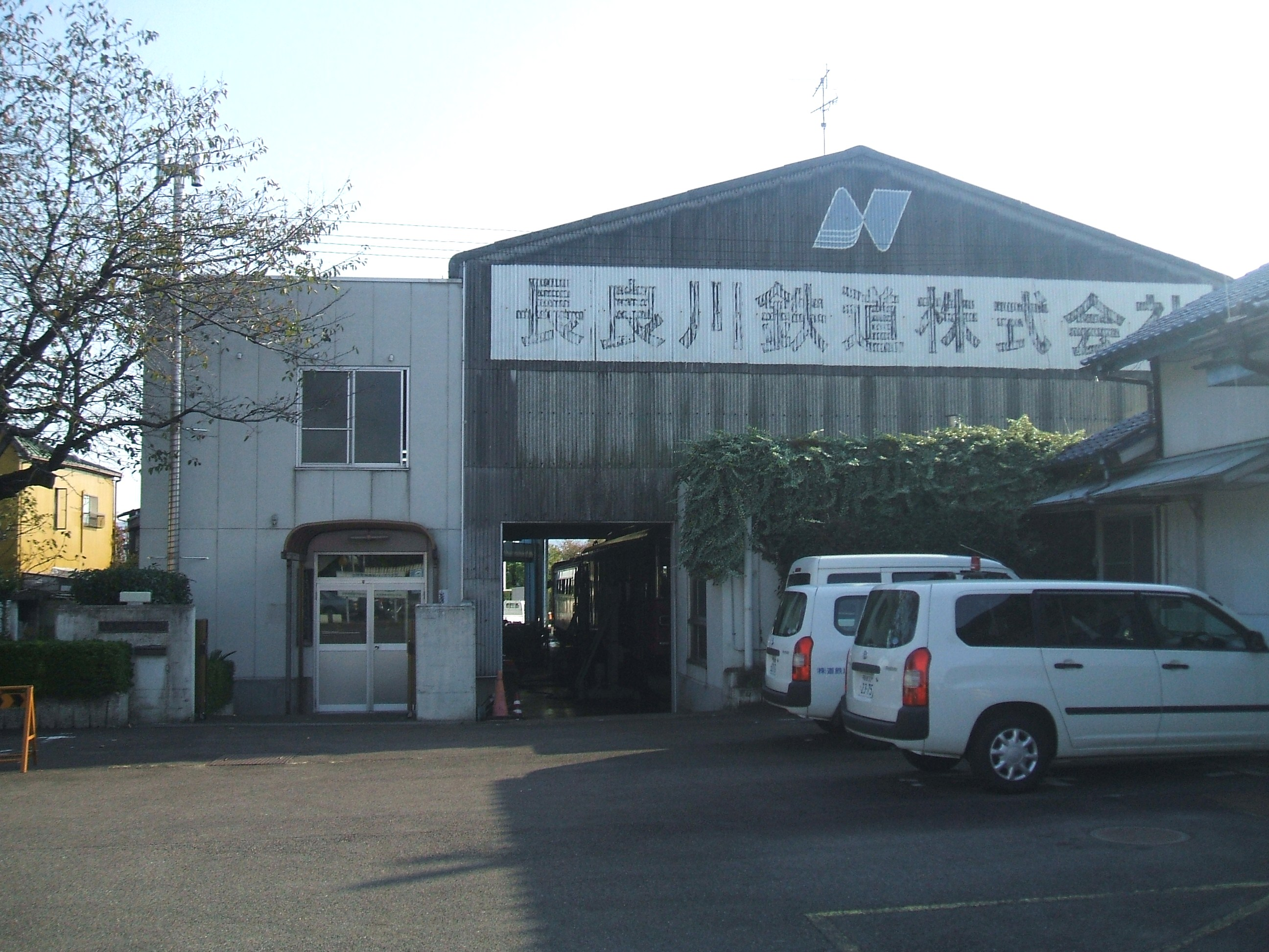 Headquarters of Nagaragawa Railway, situated next to Seki Station